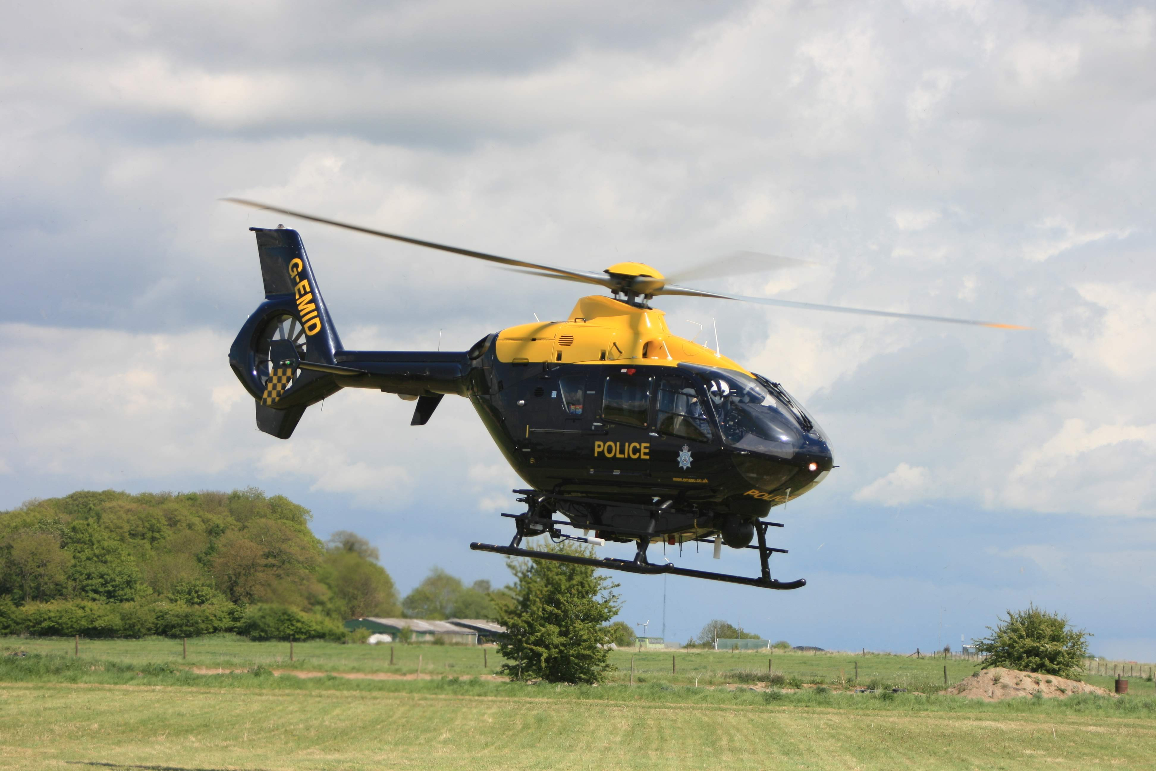 G-EMID during flight tests for new Tactical Flight Officers.